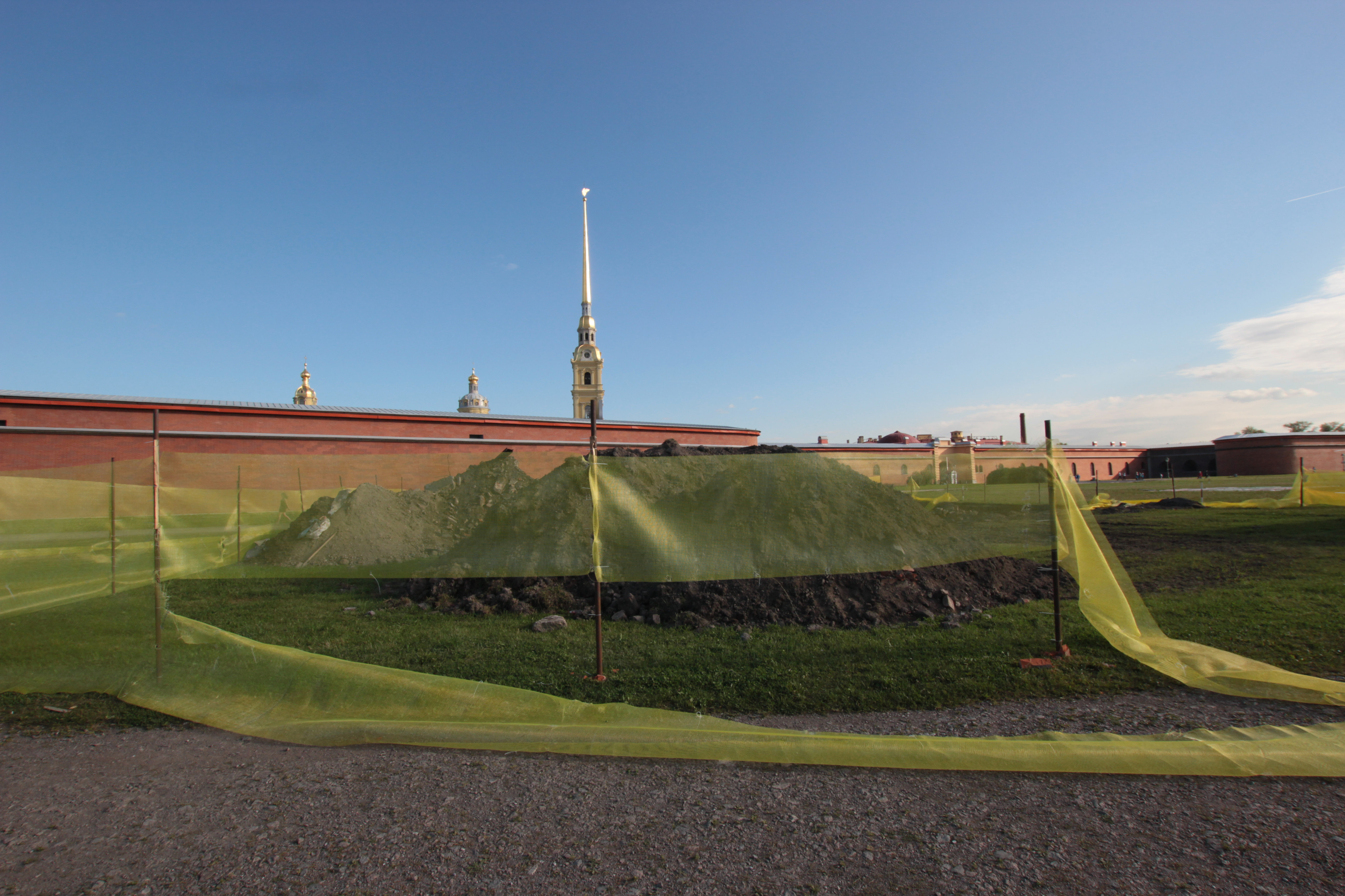 Peter & Paul Fortress